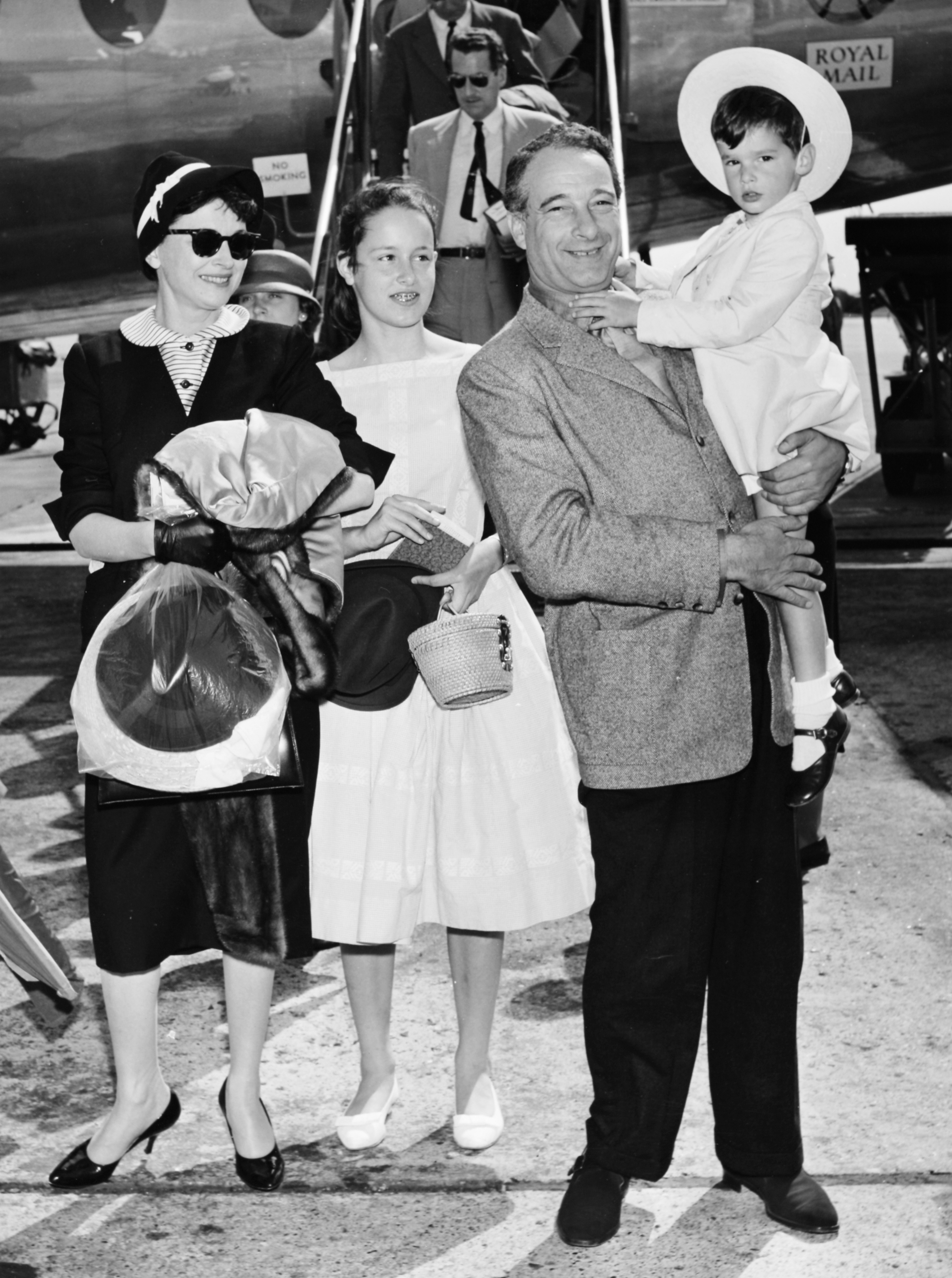 Victor Borge with family arrived to Kastrup Airport CPH, Copenhagen